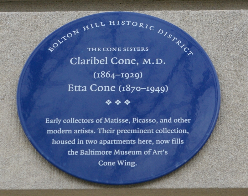 Claribel Cone, M.D. (1864-1929) Etta Cone (1870-1949) Early collectors of Matisse, Picasso, and other modern artists. Their preeminent collection, housed in two apartment here, now fills the Baltimore Museum of Art's Cone Wing.